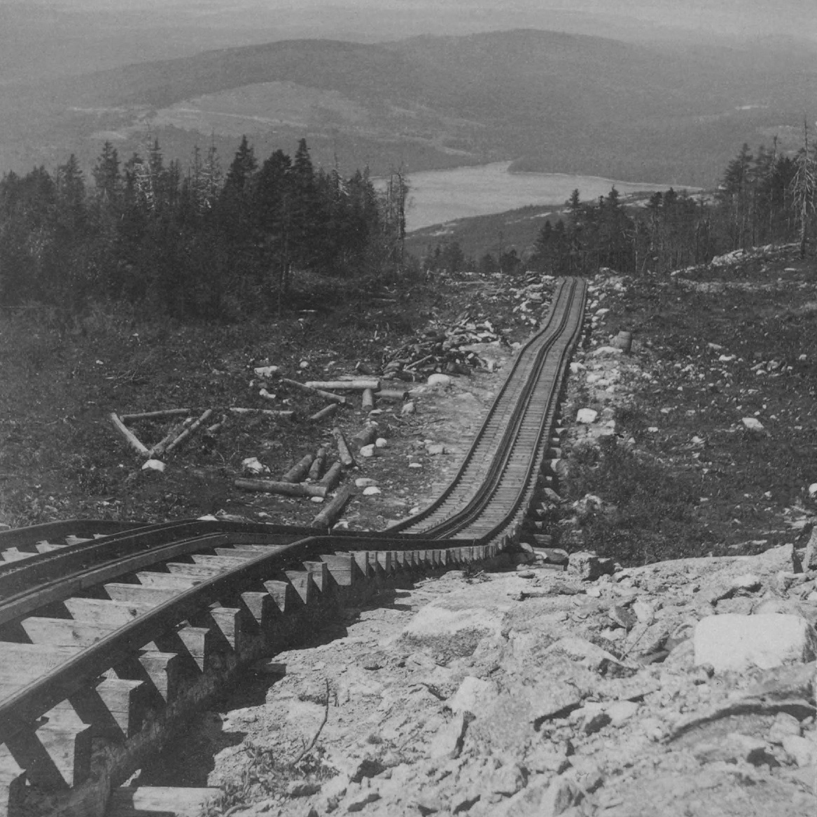 Green Mountain Cog Railway operated 1883–1890 on what is now called Cadillac Mountain, Acadia National Park, Mount Desert Island, Maine.